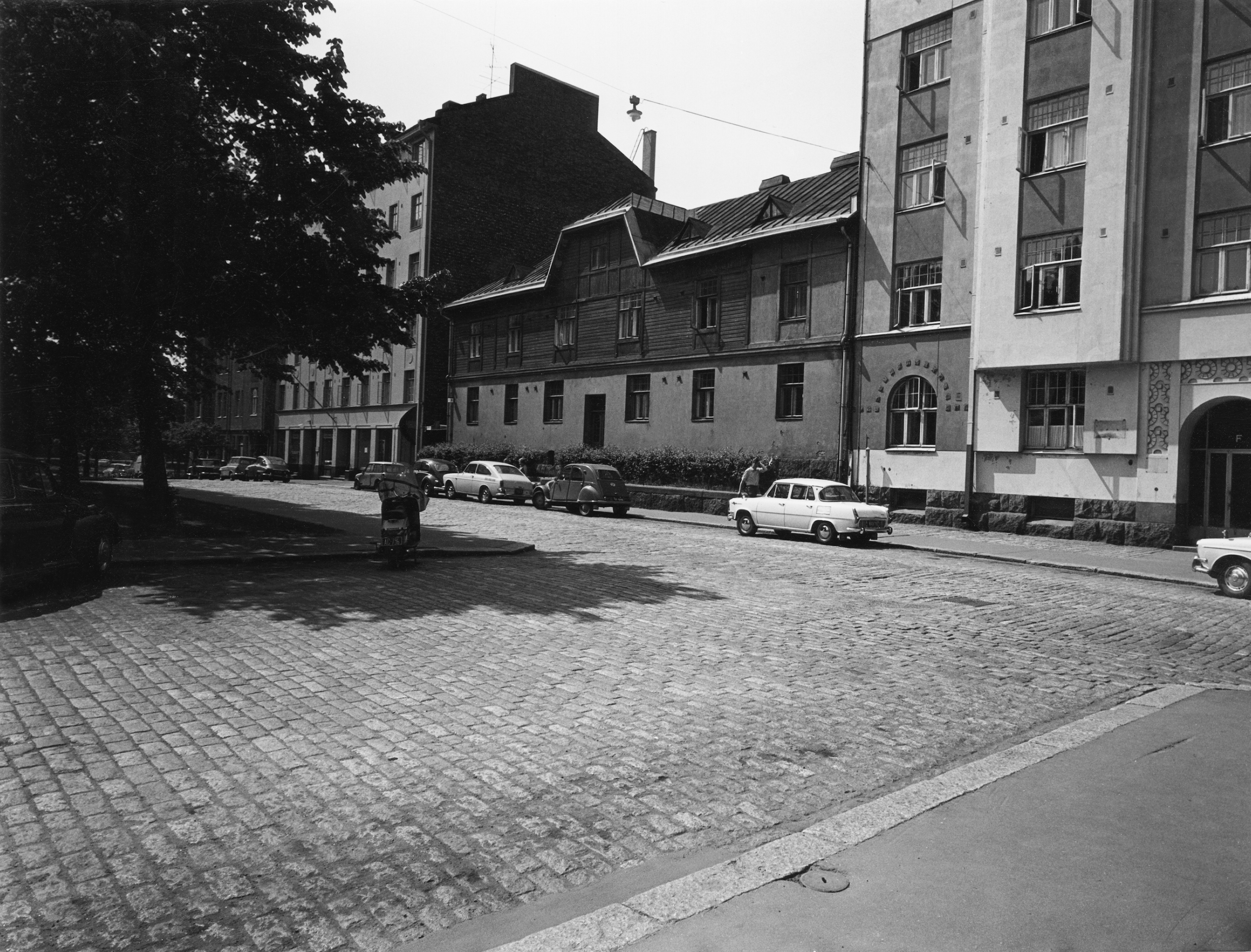 Saariniemenkatu 6, Siltasaari, Helsinki.